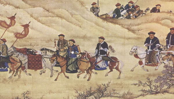 Members of the Eight Banners in an Imperial huntring trip